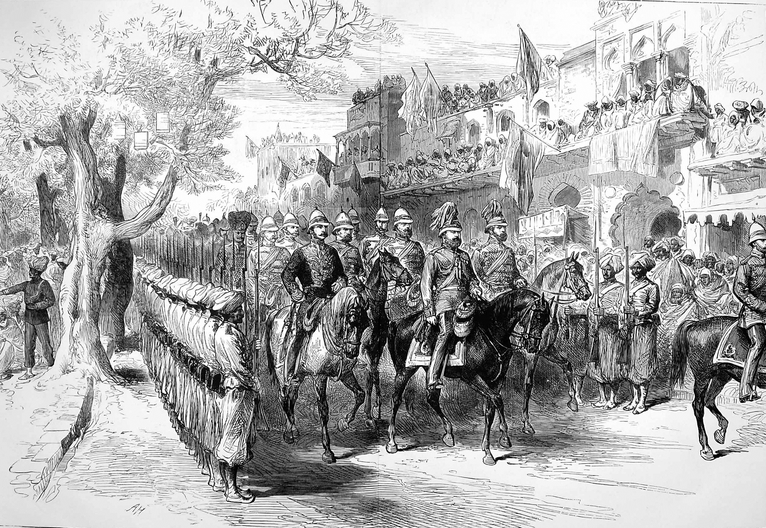 Two-page wood engraving entitled The Prince of Wales at Delhi the Chandry Chowk